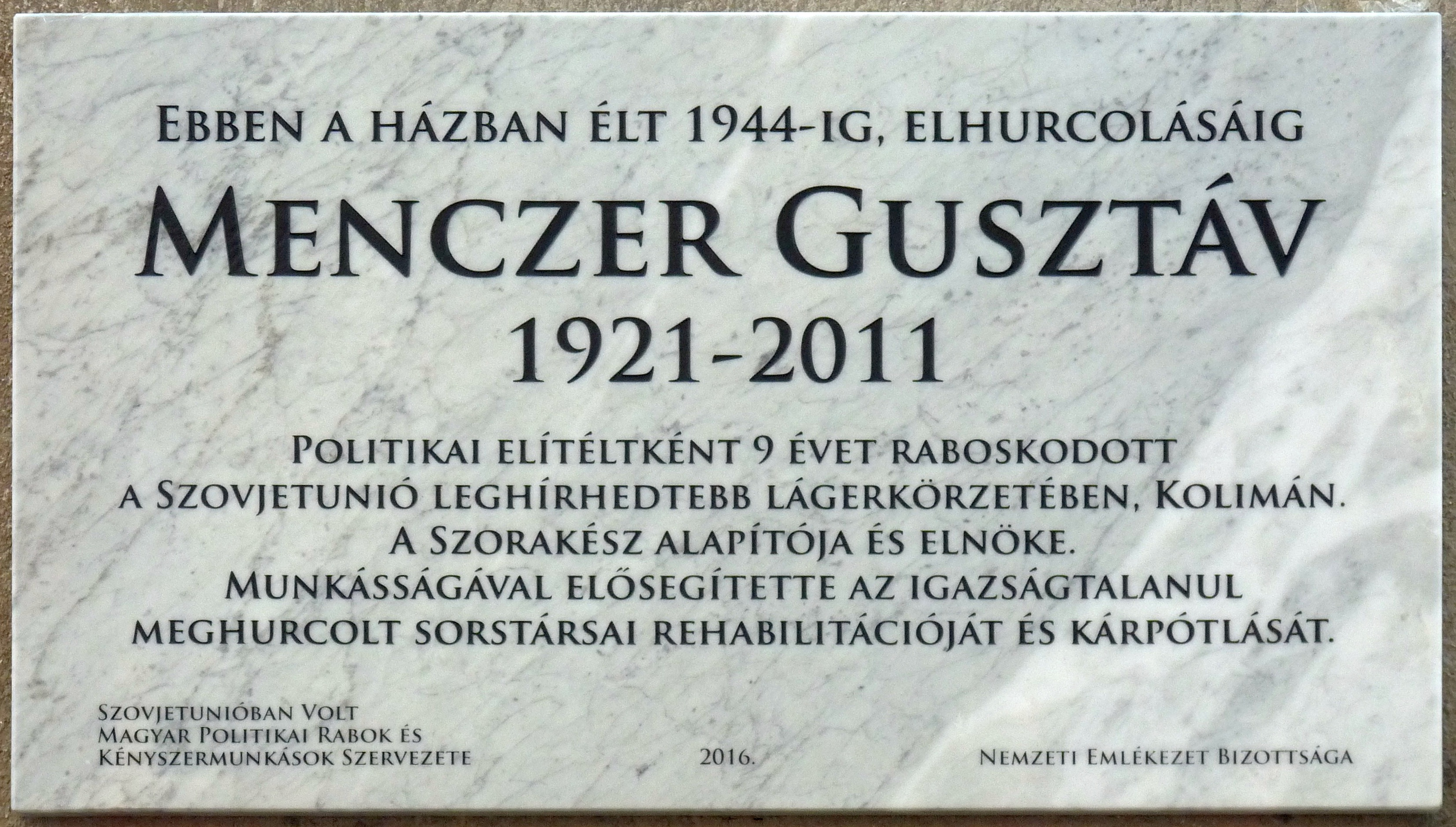 Commemorative plaque to Mr. Gusztáv Menczer (1921–2011) Hungarian Gulag survivor, foundation member and president of the Organization of Soviet-Deported Hungarian Political Prisoners and Forced Laborers (Szorakész). It was affixed to the front of his former home and unveiled September 8th, 2016. (Budapest, District II, Frankel Leó Street Nr 6)